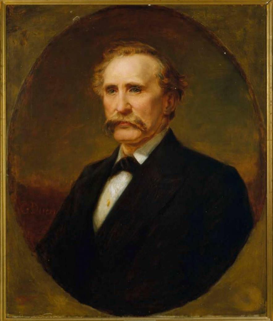 Portrait of Confederate general and Governor of Tennessee, William B. Bate (1826–1905)